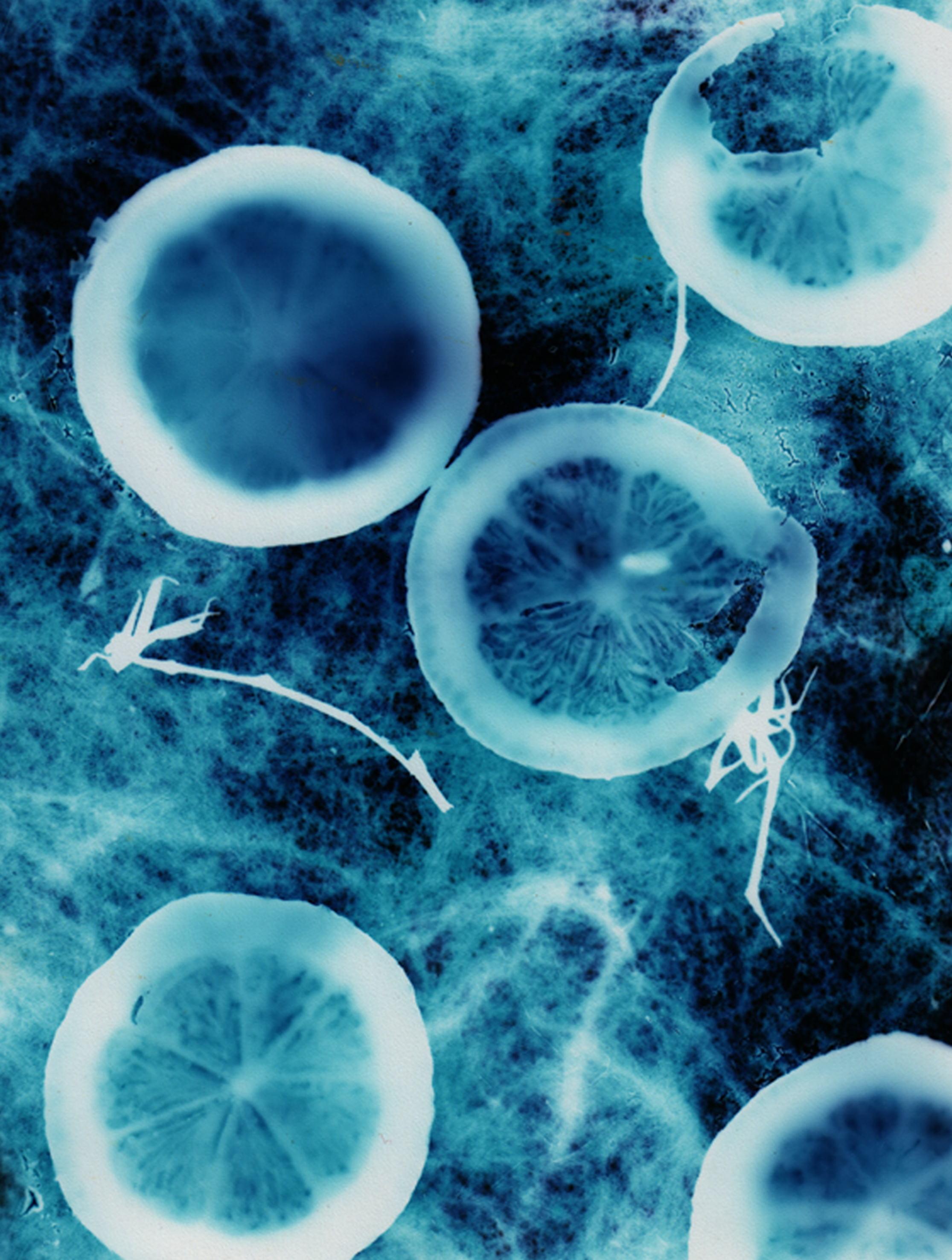 A photogram made by placing several slices of lemon directly onto colour photographic paper, thus creating an image of their transparency. The other white "shadows" are of tomato vine stems, and the background texture is created by enlarging the grain of handmade paper which was placed in the negative carrier. The lemons and tomato stems were placed on a piece of cellophane and some of the creases are visible, as well as some gathered drops of the lemon juice. The varied thicknesses of the lemon slices are what determine both its transparency/translucency and the clarity of the detail – compare the two touching slices nearest to the centre of the image. Deliberate slight cyan cast. No digital manipulation.